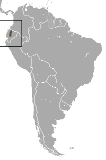 Ecuadorean Small-eared Shrew (Cryptotis equatoris) range